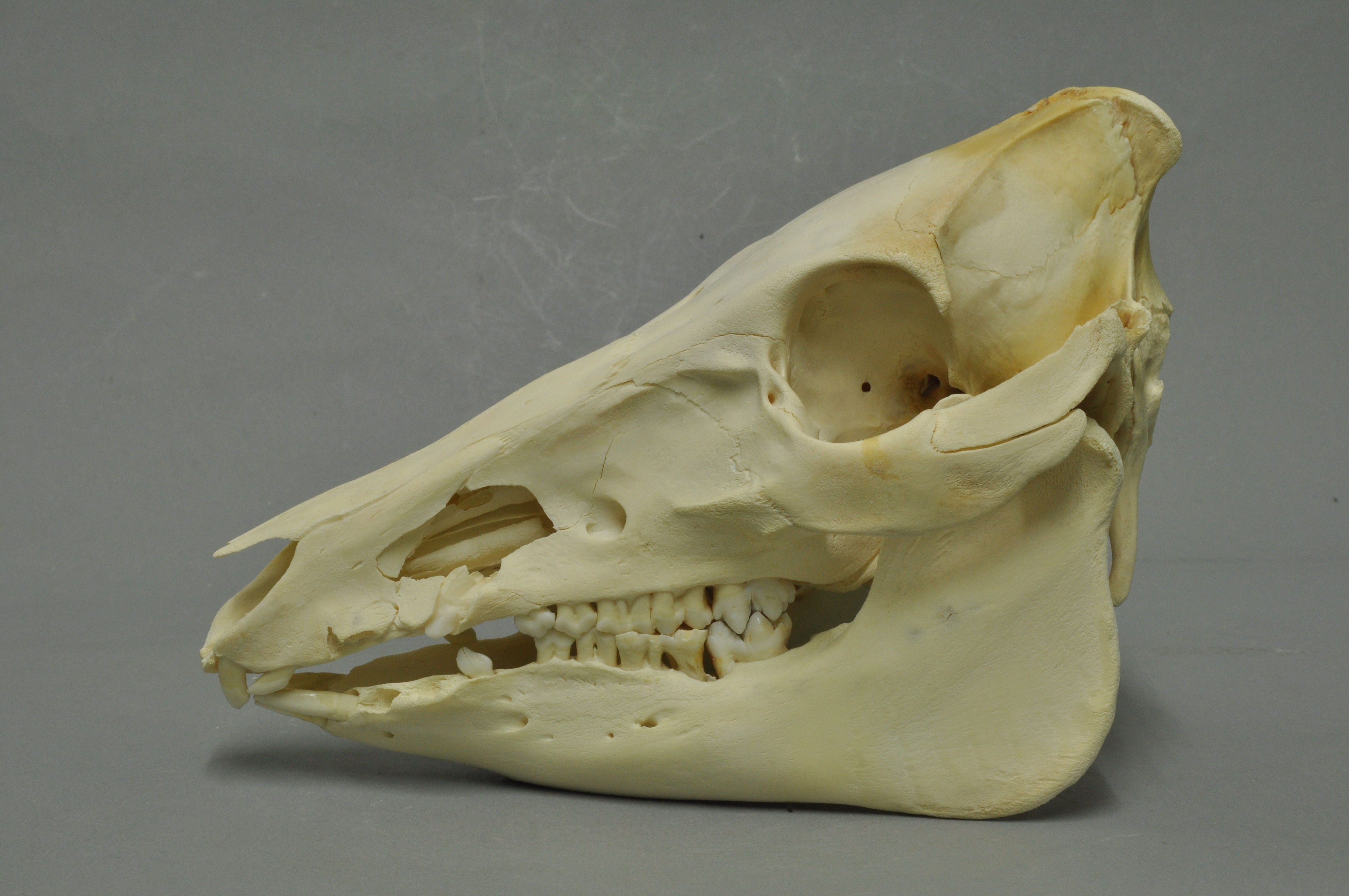 Wild boar Sus scrofa reiseri, skull, Coll. Museum Wiesbaden